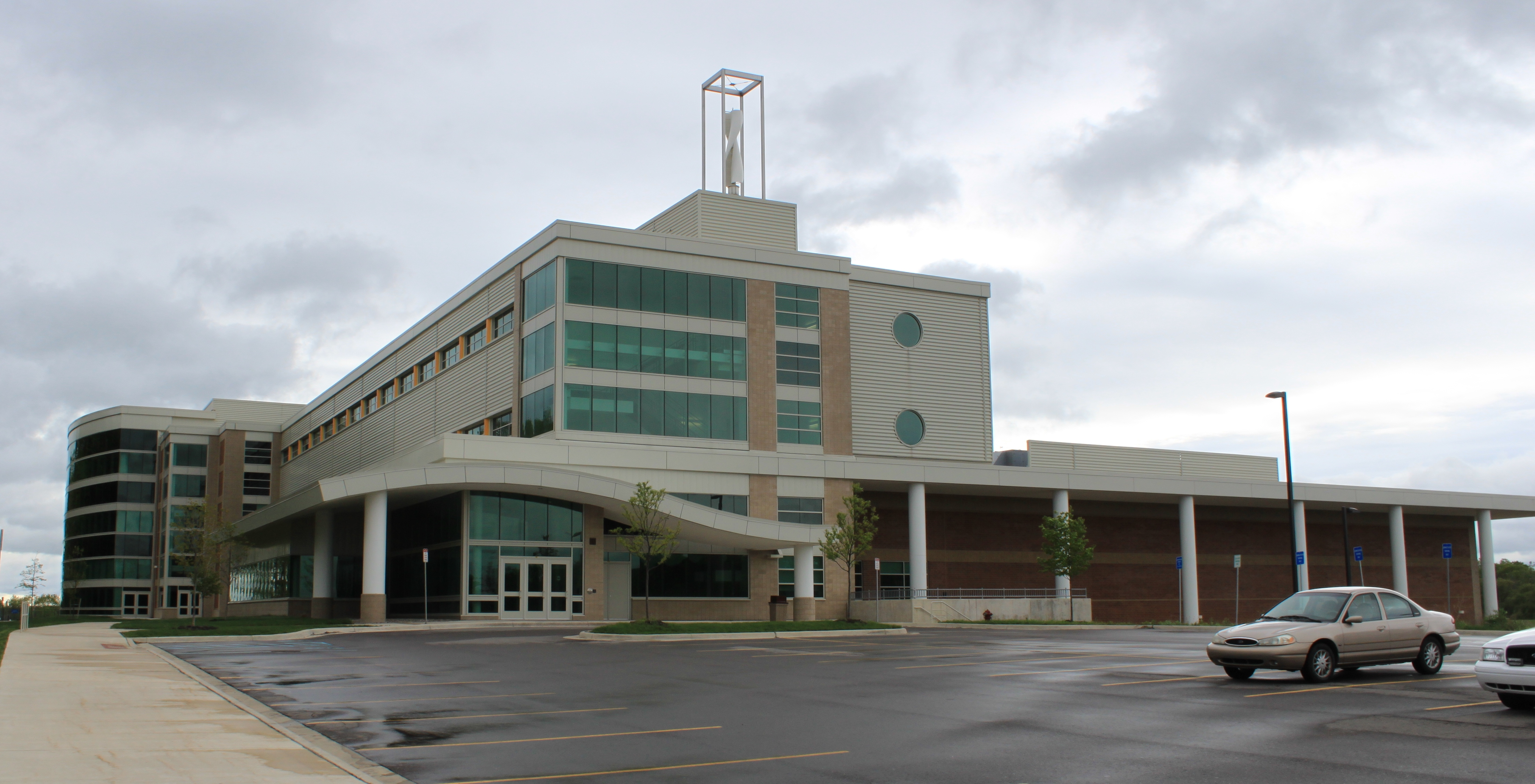 Skyline High School, 2552 North Maple Rd., Ann Arbor, Michigan 48103